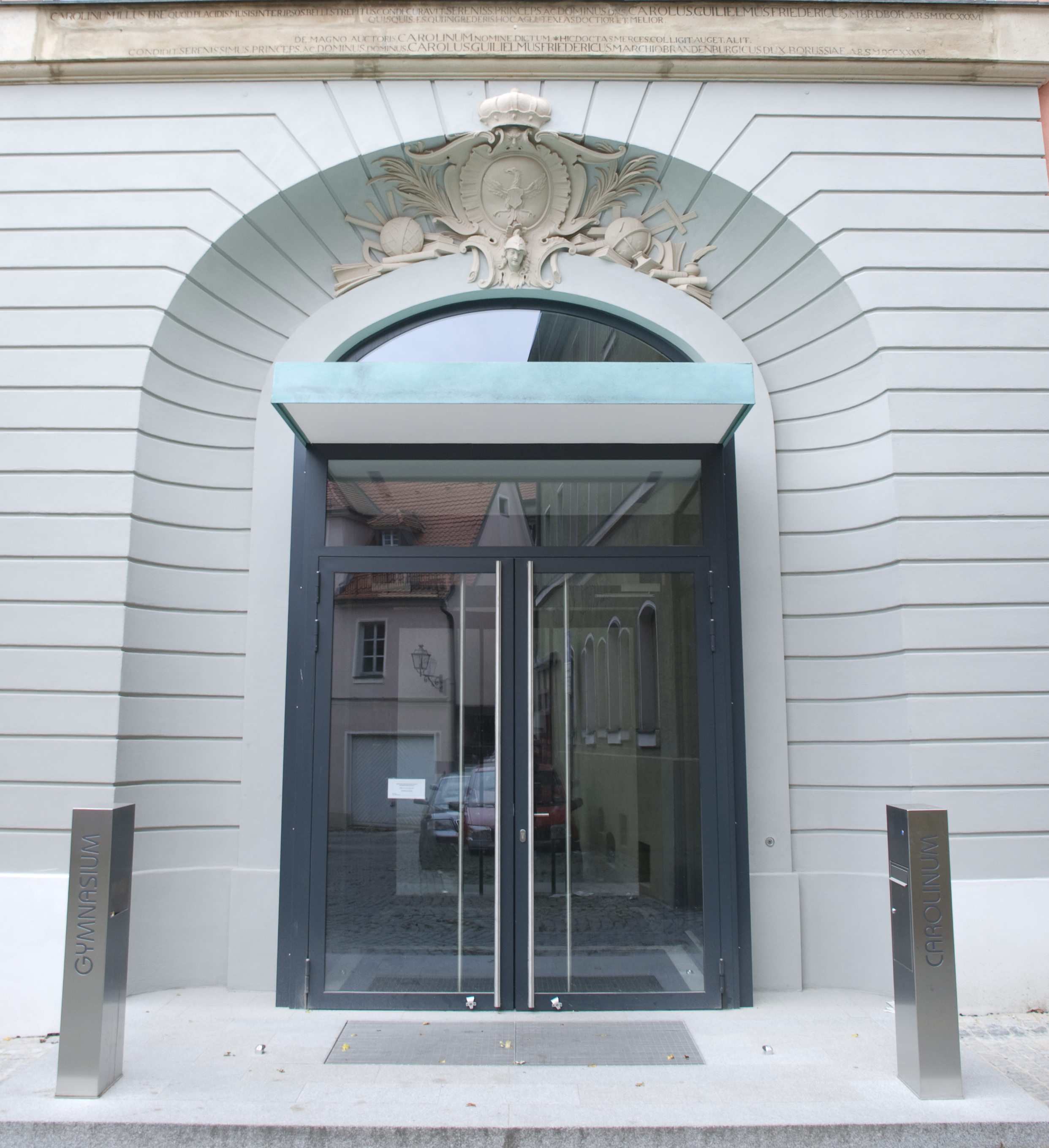 Gymnasium Carolinum in Ansbach, Germany. Front door.